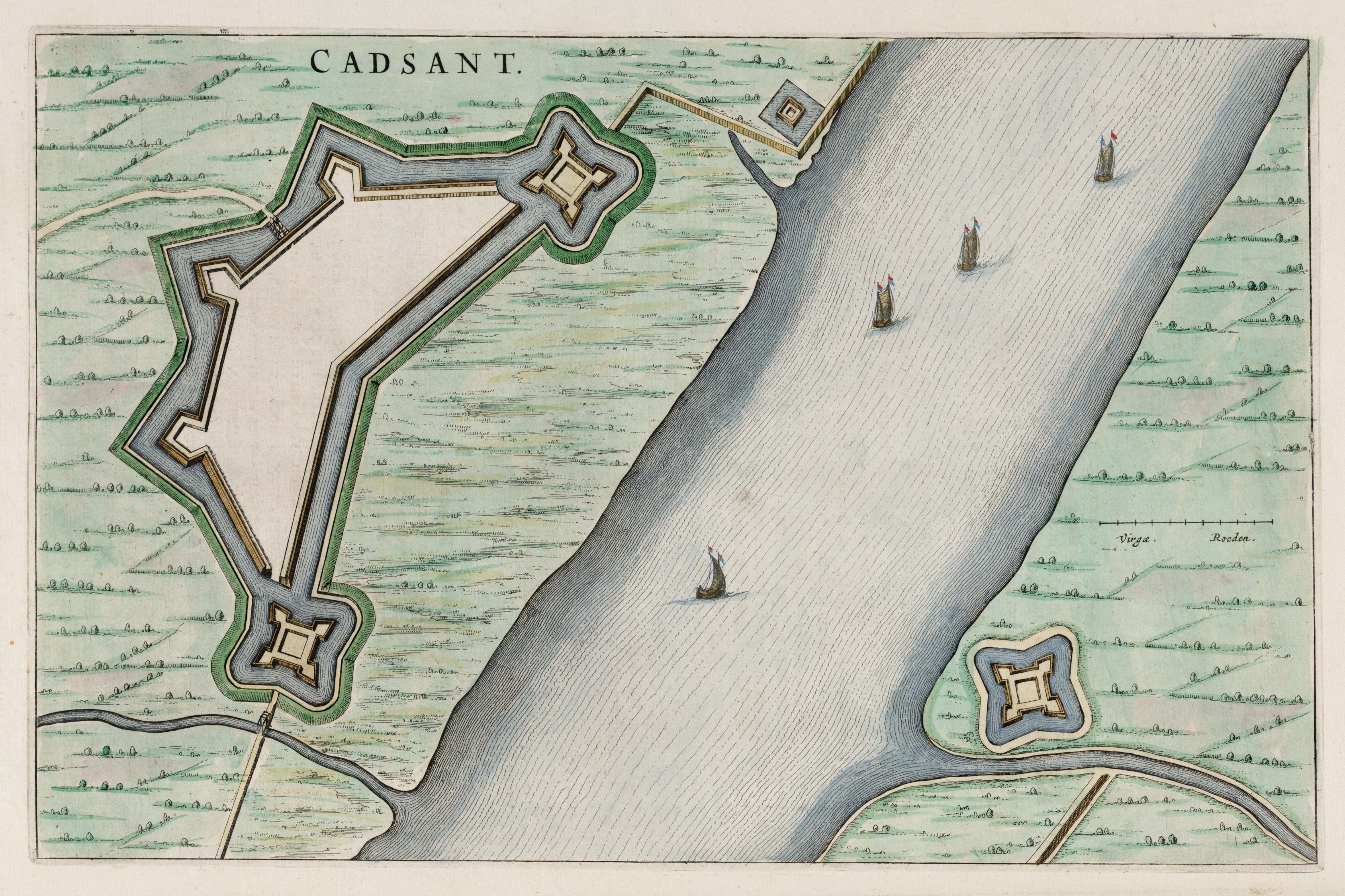 The fortifications of Retranchement, near Cadzand.